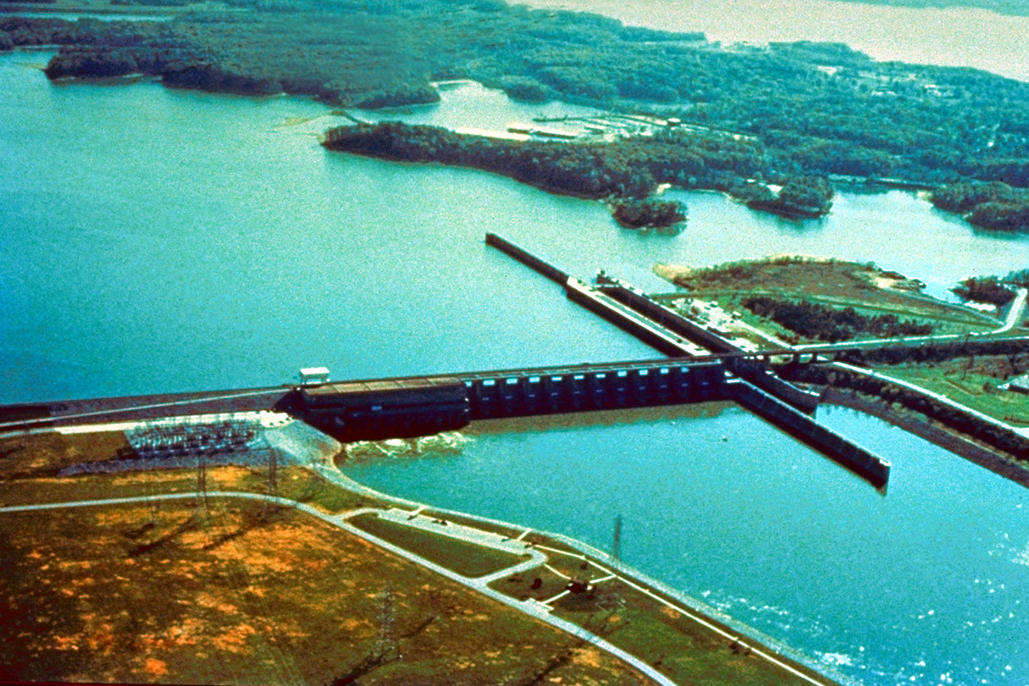 Lake Barkley Lock and Dam, impounding Lake Barkley on the Cumberland River near Grand Rivers, Kentucky, USA. The U.S. Army Corps of Engineers constructed and operates the lake and dam. View is upriver to the south.